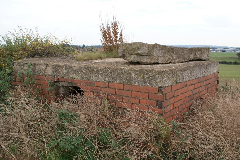 Type 22 machine gun post 'pill box' with Netherthorpe hangar complex beyond